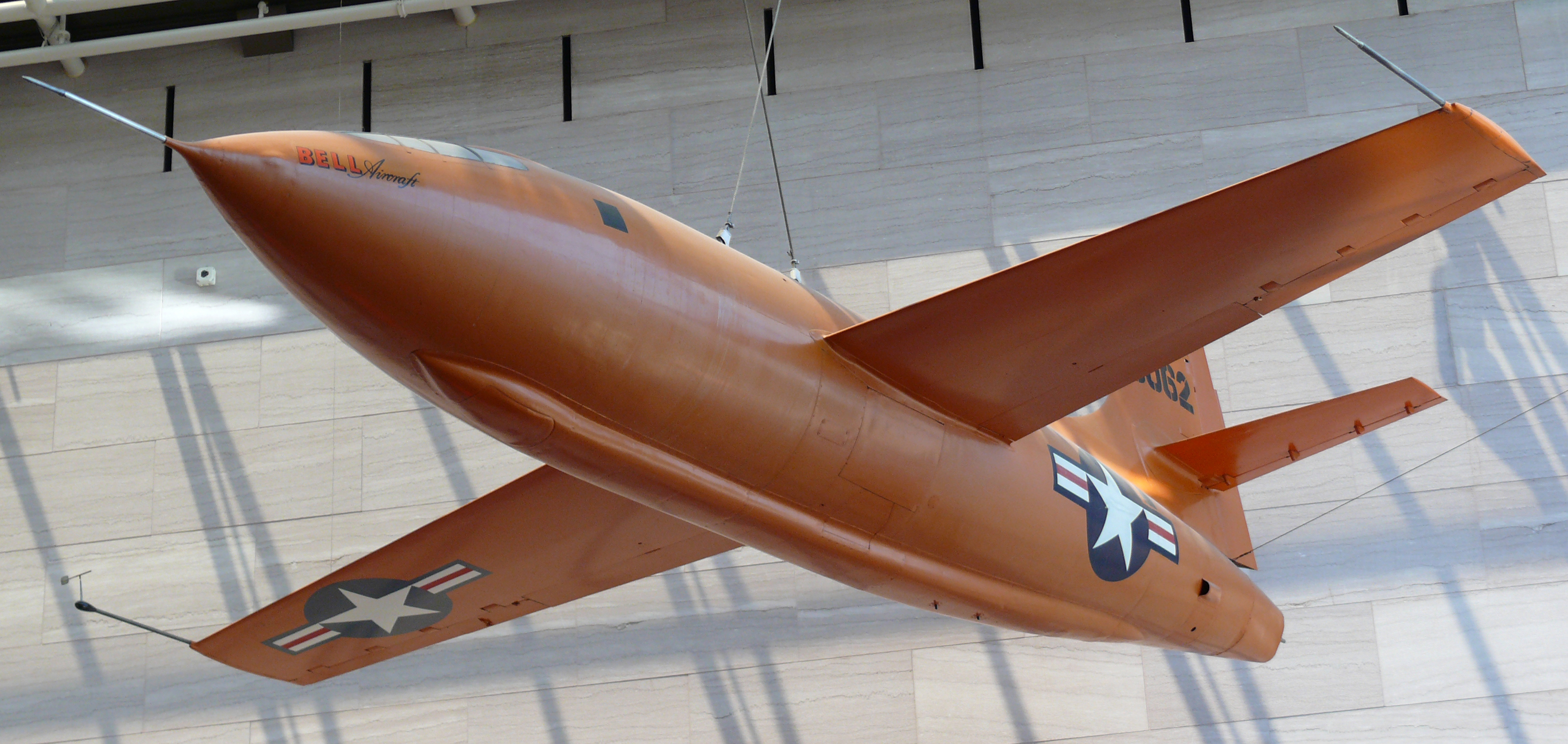 Bell X-1 in the National Air and Space Museum, Washington DC. The Bell X-1 was a joint NACA-U.S. Army Air Forces/US Air Force supersonic research project and the first aircraft to exceed the speed of sound in controlled, level flight.